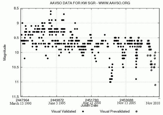 AAVSO light curve of SRC variable star KW Sgr from 1 Jan 1990 to 24 Nov 2010. Up is brighter and down is fainter. Day numbers are Julian day. Different colors reflect different bandpasses.